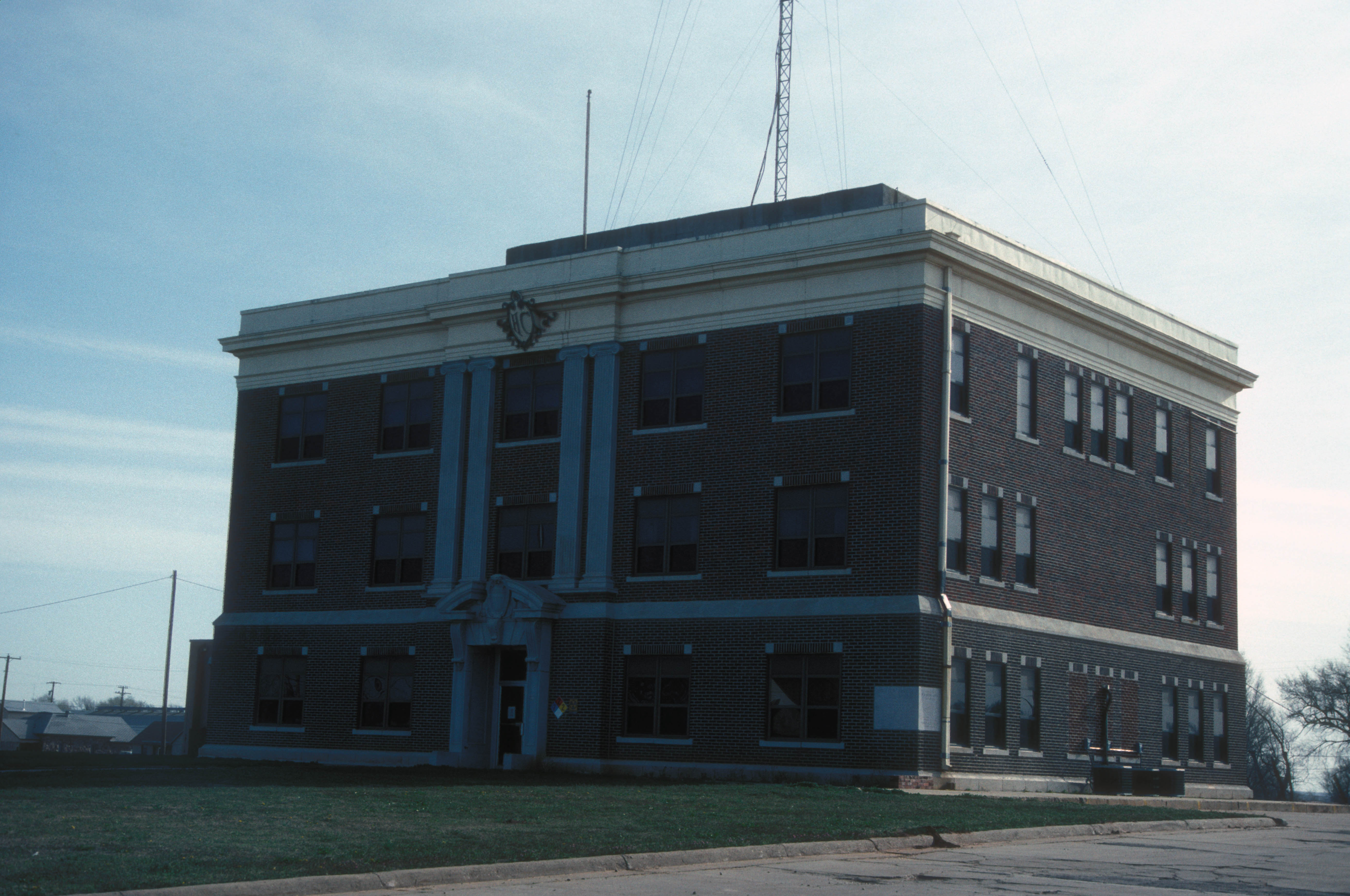 1927 CLASSICAL REVIVAL AND PLAINS COMMERCIAL STYLES